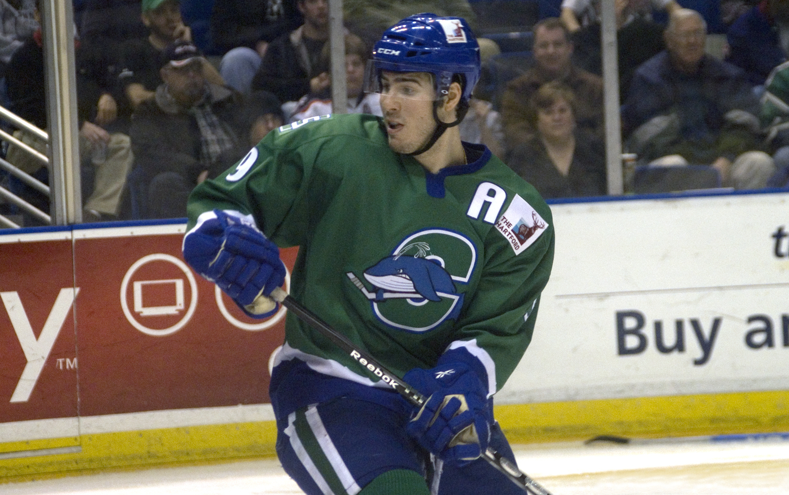 ERI_3393 Providence Bruins vs Connecticut Whale in American Hockey League action at the XL Center in Hartford, Connecticut. This photo was taken by Sarah Connors on January 15, 2011 using a Nikon D200. This photo also appears in sarah_connors' Flickr photostream, and is one of a set of 216 "Providence @ Whale, 1/15/11" Tags: Boston Bruins, Providence Bruins, New York Rangers, Connecticut Whale, NHL, AHL, XL Center, hockey, icehockey, Hartford Wolf Pack